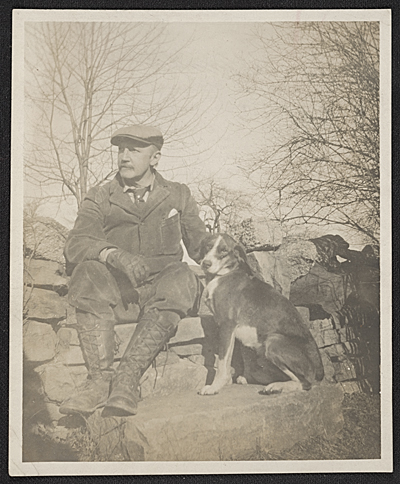 Archives of American Art Native nameArchives of American ArtParent institutionSmithsonian InstitutionLocationWashington, D.C.Coordinates38° 53′ 52.44″ N, 77° 01′ 21.72″ W Established1954Web page control : Q2860568 VIAF: 151134814 ISNI: 0000 0001 2185 0758 LCCN: n79065944 NLA: 35007823 GND: 1085306631 WorldCat Photograph shows William Anderson Coffin, outside, seated on a stone wall with his dog beside him. William Anderson Coffin with his dog, ca. 1900 / unidentified photographer. William Anderson Coffin papers, Archives of American Art, Smithsonian Institution.